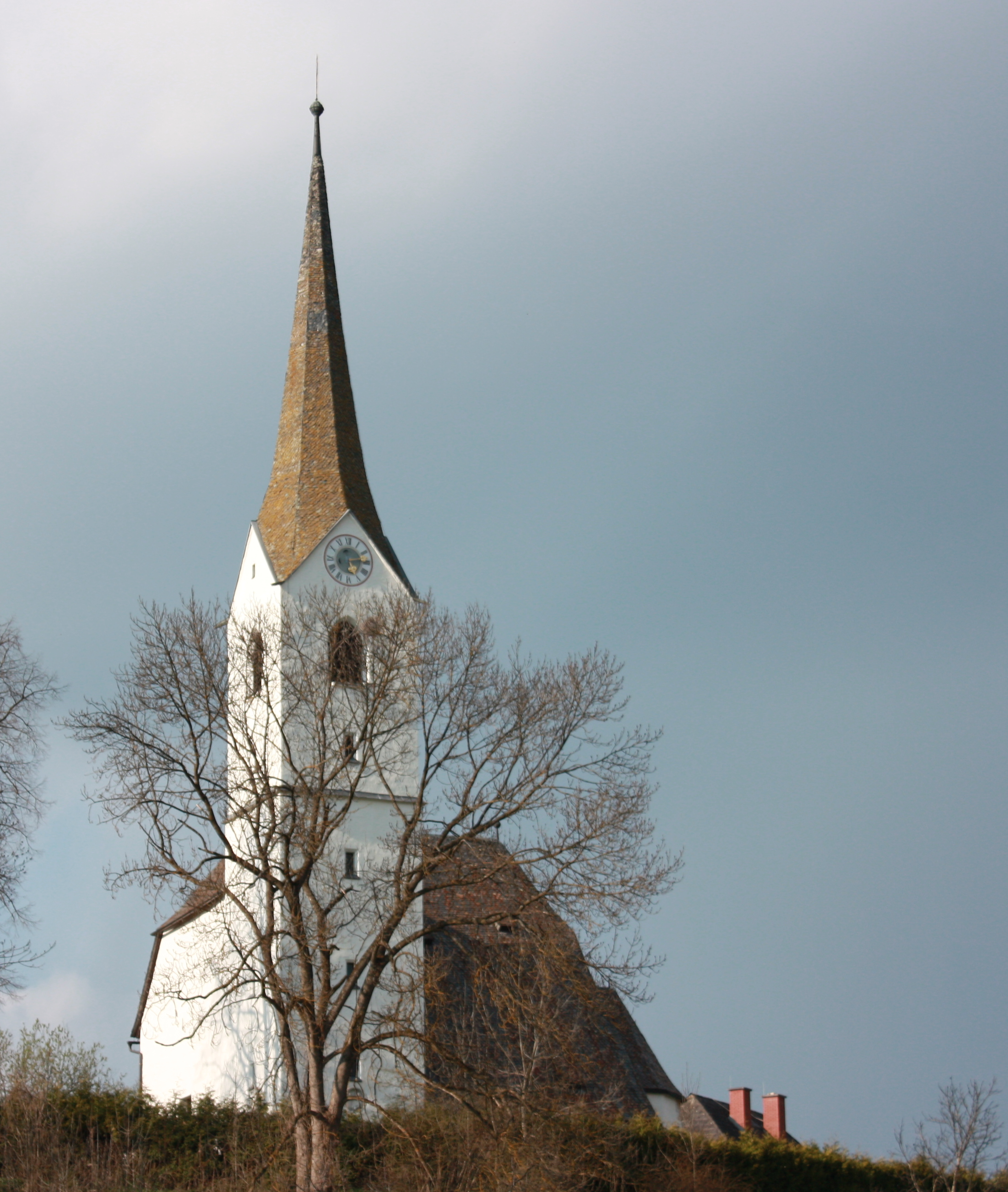 Church of St Michael in the community of Maria Saal